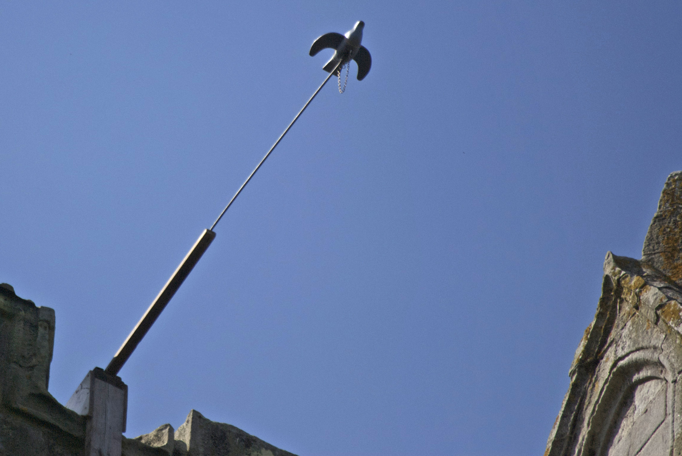 Open papingo shoot held by the Ancient Society of Kilwinning Archers at Kilwinning Abbey – close up of papingo on pole